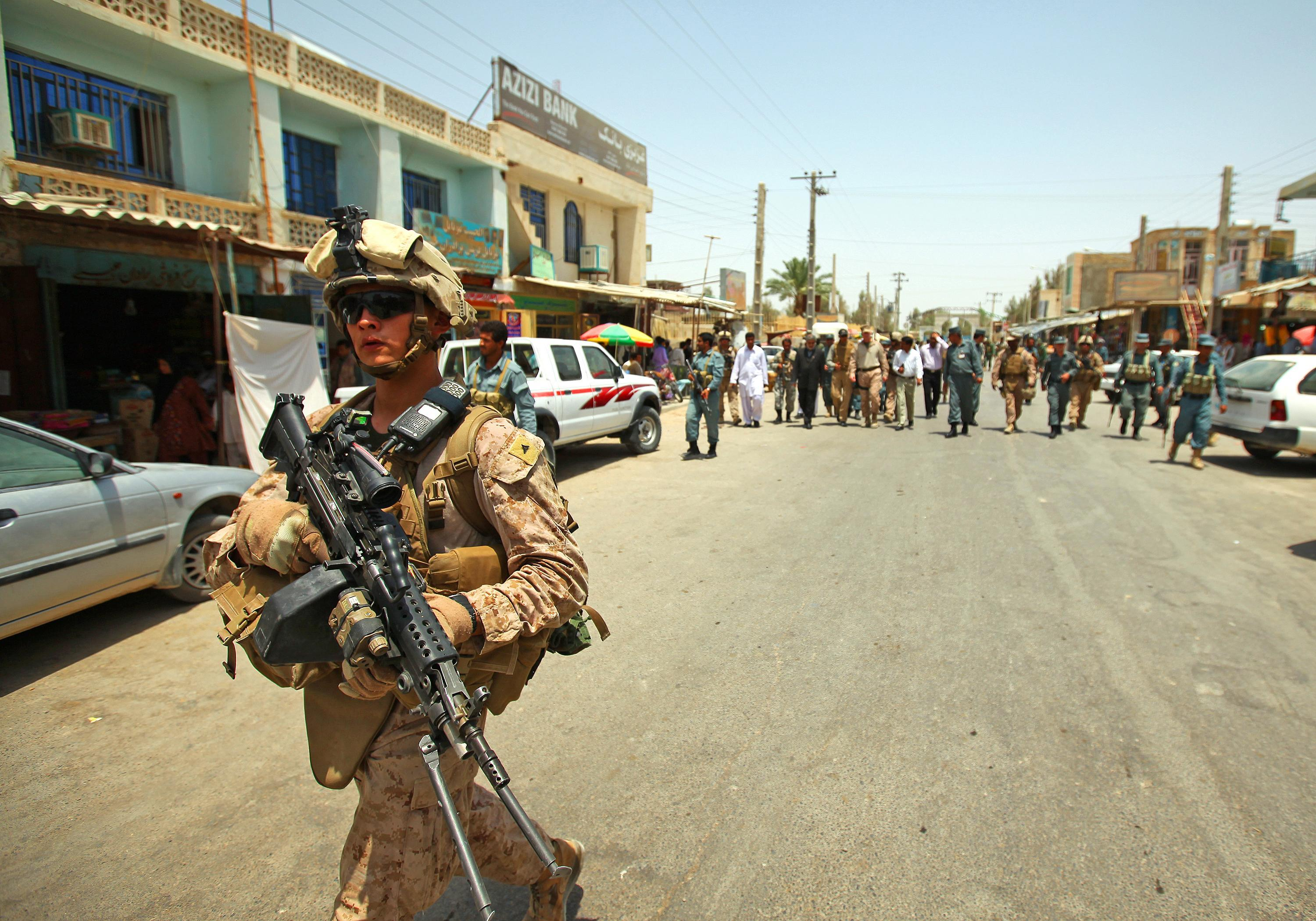 Lance Cpl. Orlando Tovar, a squad automatic rifleman with Company Charlie, 1st Battalion, 23rd Marine Regiment, Task Force Belleau Wood, patrols the streets of Zaranj during a visit from Maj. Gen. John A. Toolan, commanding general of Regional Command Southwest, June 4. Toolan met with the Nimroz provincial governor, Abdul Karim Brahawi, to participate in the opening ceremony of the city’s new hospital emergency room. (Photo ID: 411676)